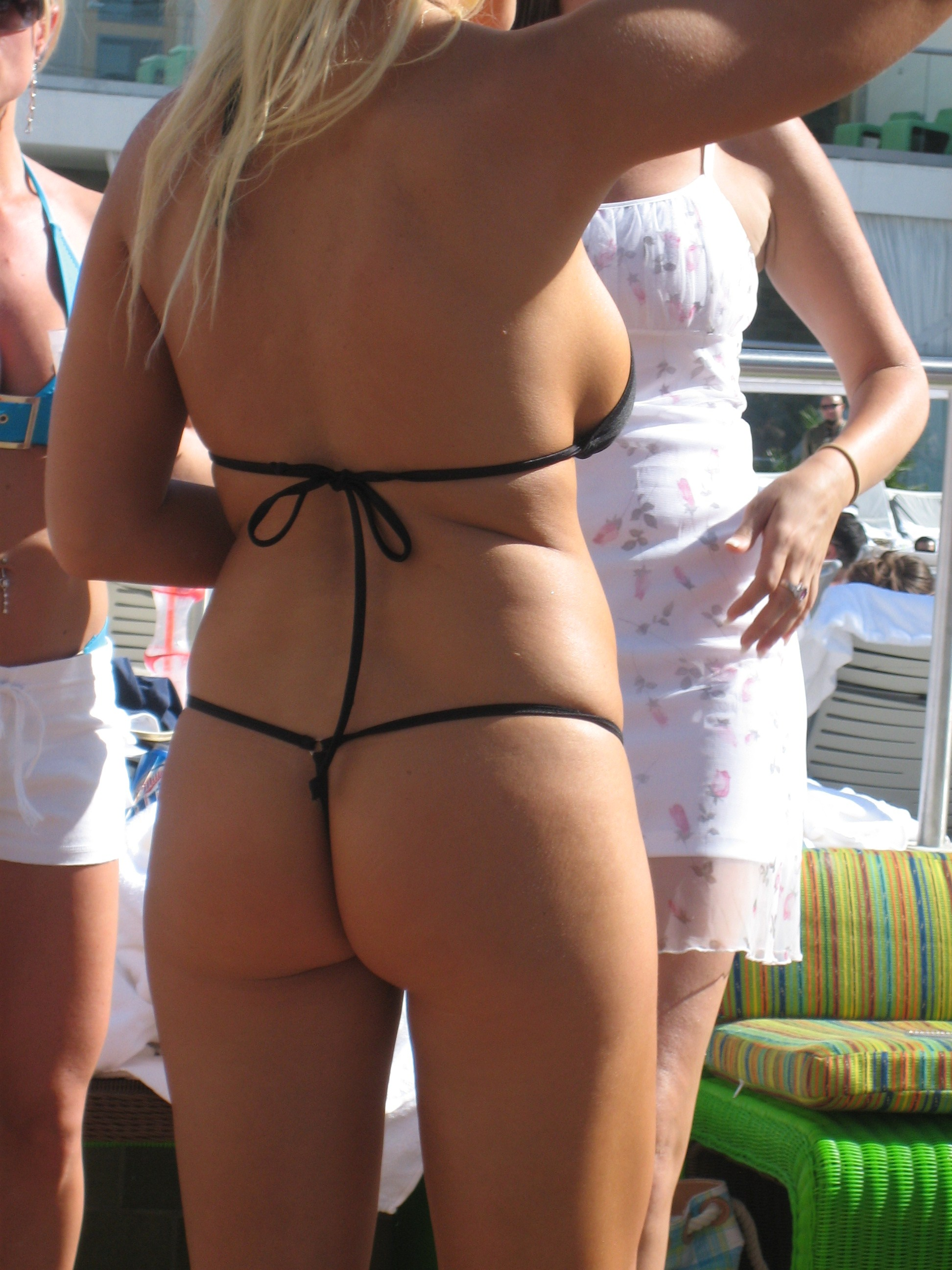 View from the rear of a woman wearing a G-String type of bikini bathing suit.